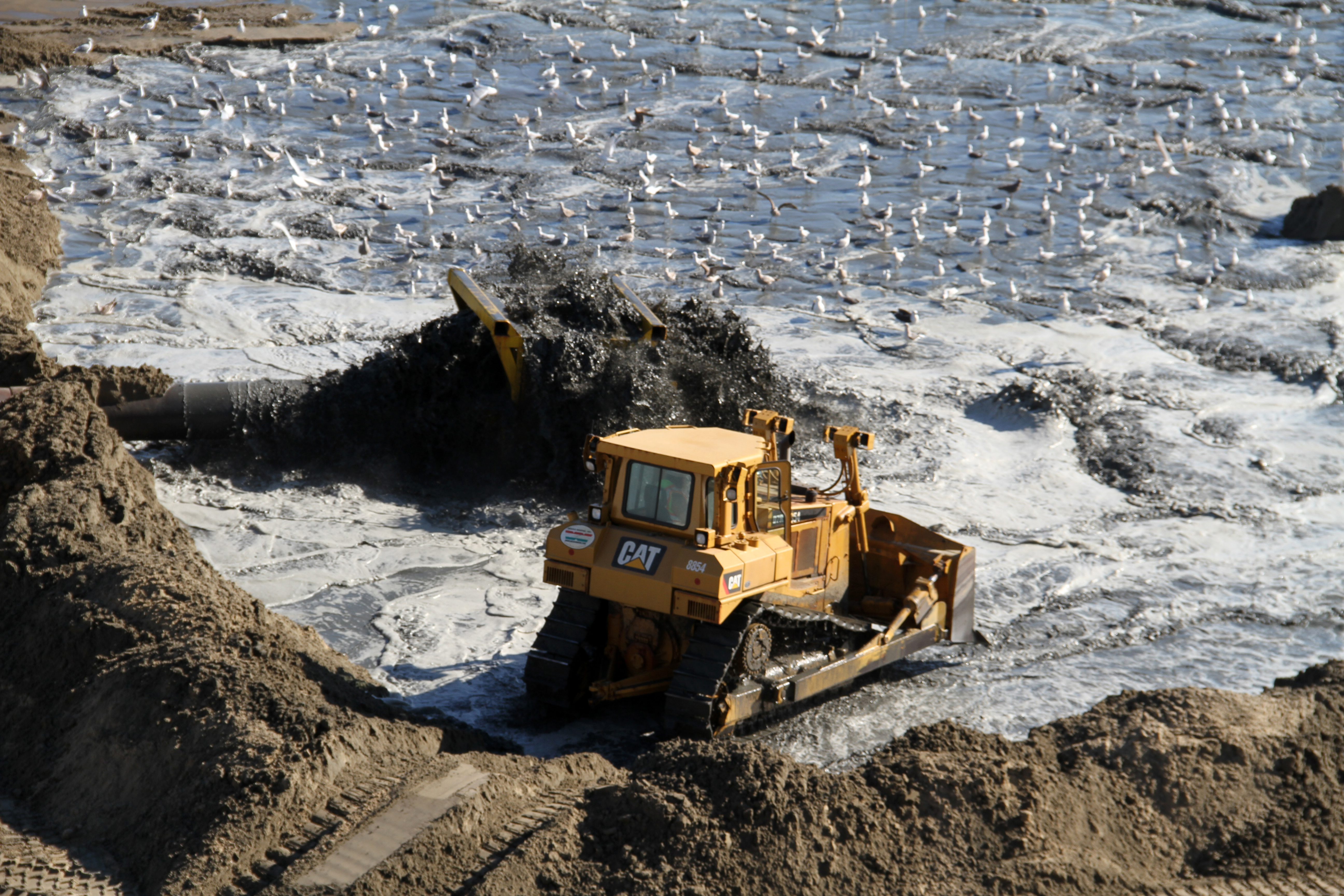 VIRGINIA BEACH, Va. -- This is the first renourishment since the Virginia Beach Hurricane Protection Beach Renourishment Project was completed in 2001. The $143 million storm protection project in 2001 included spanning the original boardwalk, adding pump stations, seawall improvements and sand replenishment. Damage prevention has been estimated at $443 million, according to Army Corps of Engineers’ Jennifer Armstrong, project manager for Operation Big Beach. (U.S. Army photo/Pamela Spaugy)